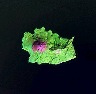 Ekarma Island of the Kuril Islands (geocover 2000)